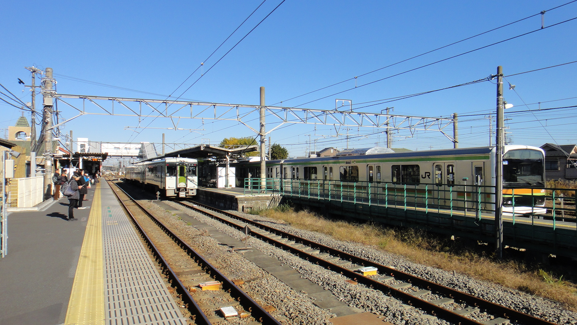 View from the south end of platform 1 at Komagawa Station in Saitama Prefecture, Japan, with a Hachiko Line KiHa 110 series DMU at platform 2 on a service to Takasaki, and a Kawagoe Line 209-3100 series EMU at platform 3 on a service to Kawagoe